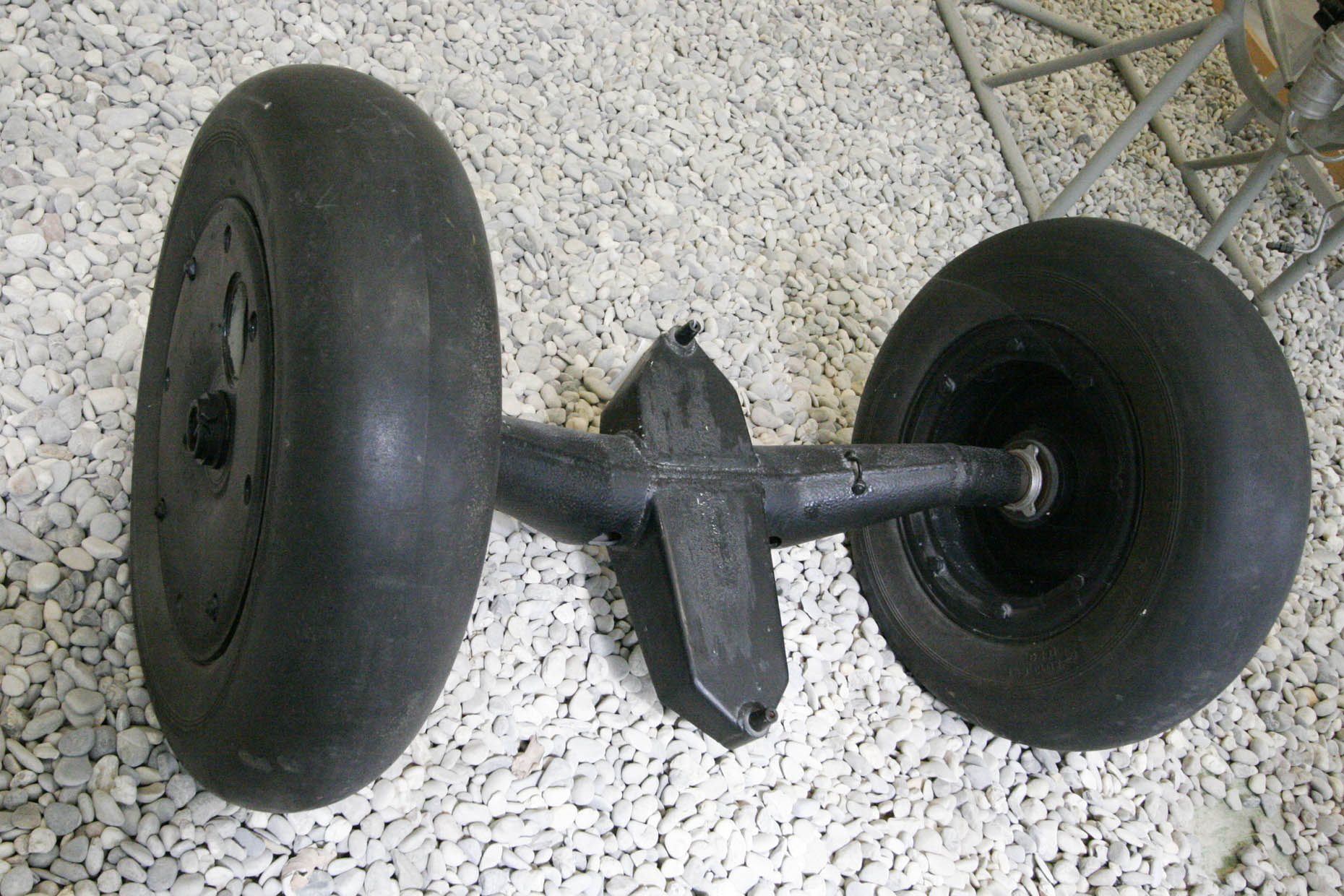 Messerschmitt Me 163 Dropping type wheel photo by baku13, 12 Aug 2005 on display at the Luftwaffenmuseum, Berlin-Gatow Germany.